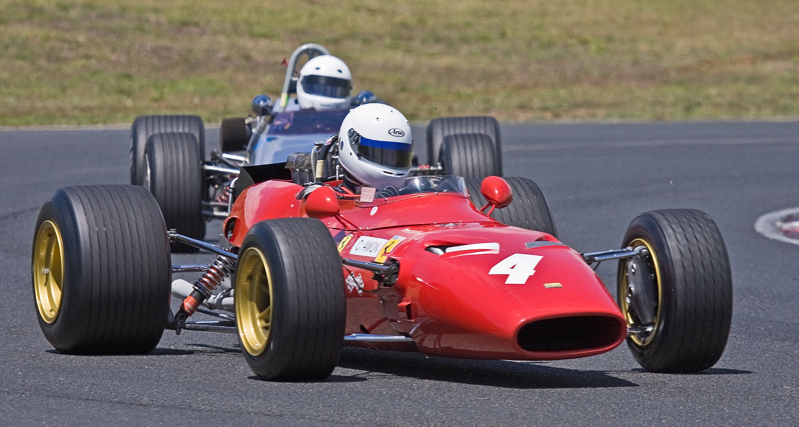 Rob Hall, 1968 Ferrari Dino 246T, Tasman Revival 2008, Eastern Creek, Australia.